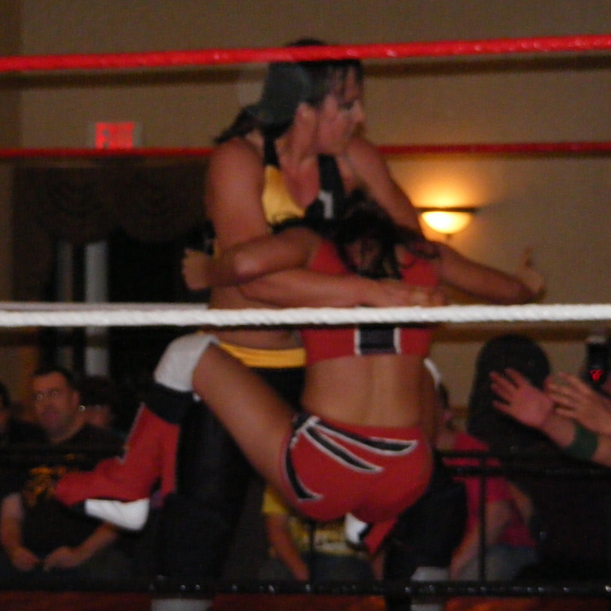 Professional wrestler Sara Del Rey performing the "Royal Butterfly" (Standing butterfly lock released into a butterfly suplex) on Alexxus at an NWA-LS show on June 11, 2010, in Manchester, NH.